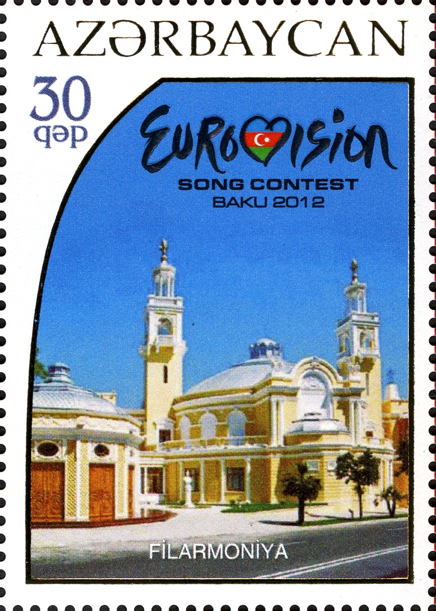 "Eurovision - 2012" song contest